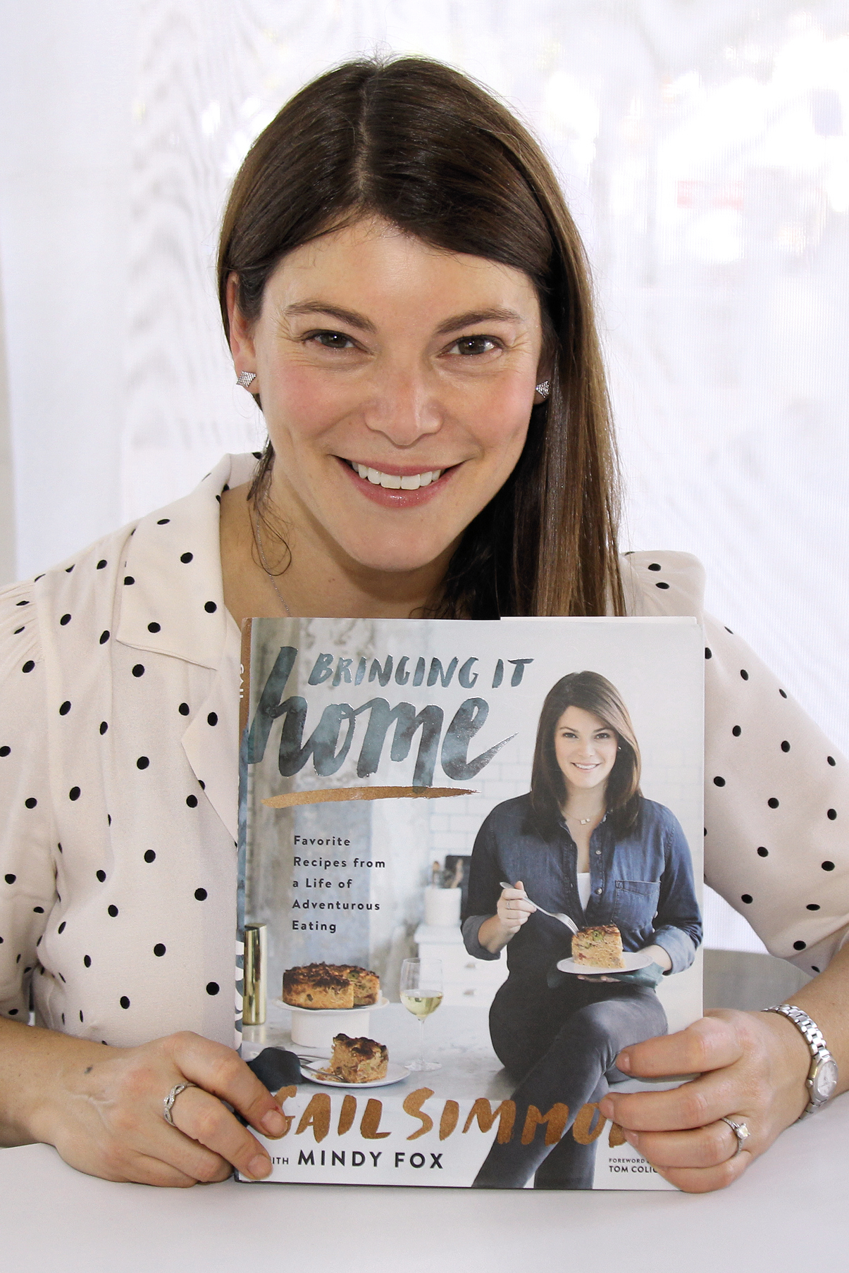 Author Gail Simmons at the 2017 Texas Book Festival.